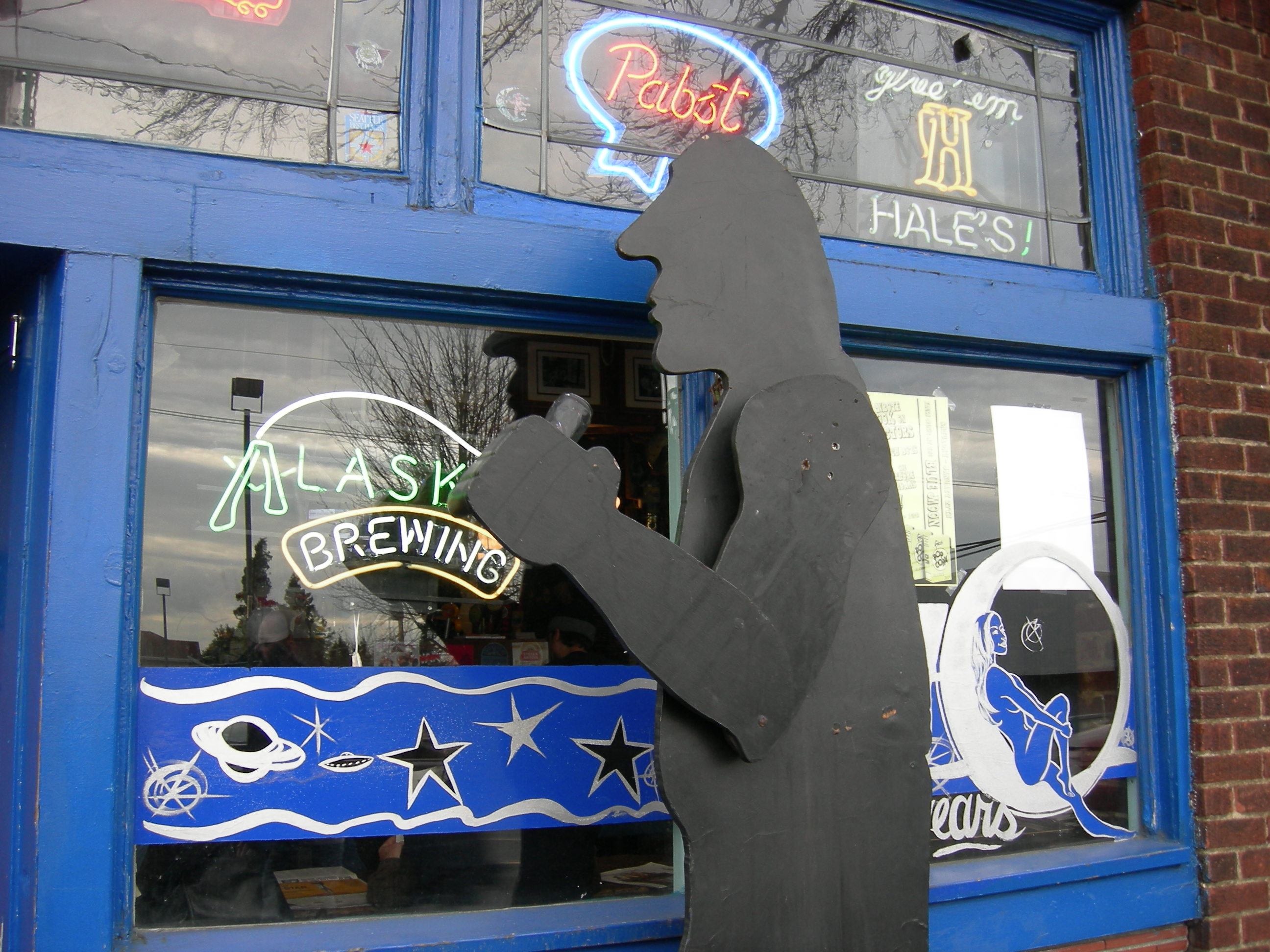 "Hammered Man", kinetic sculpture in front of the Blue Moon Tavern, University District, Seattle, Washington. The statue is placed out front in good weather, with a black-spraypainted beer can in its hand; it is a parody of the Hammering Man kinetic sculpture in front of the Seattle Art Museum and its arm operates on a similar mechanism.